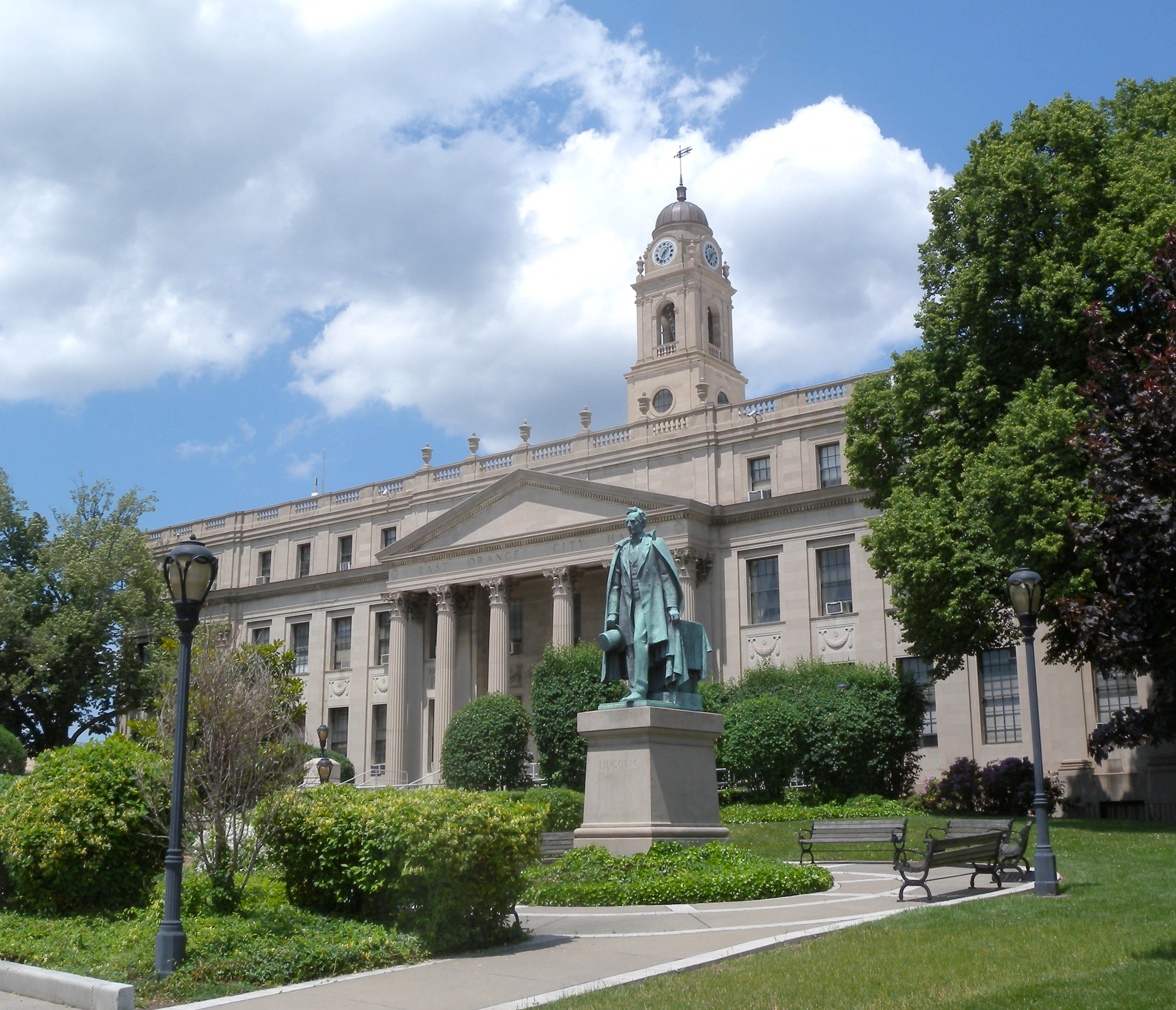 Looking northwest at City Hall of East Orange, New Jersey on a sunny midday with Abraham Lincoln statue in foreground.